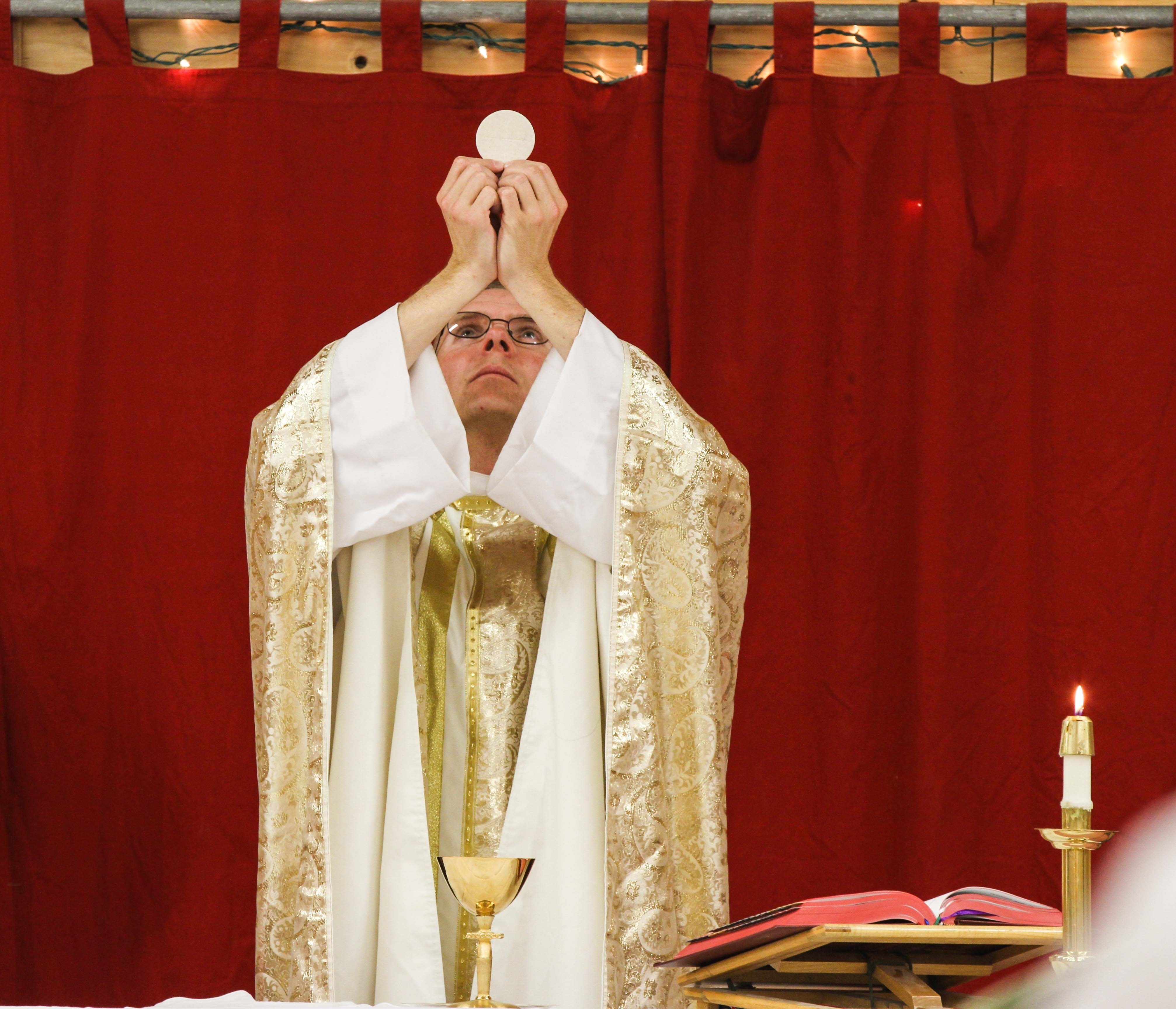 Maj. James Peak, Brigade Chaplain, 3rd Brigade Combat Team "Rakkasans," 101st Airborne Division (Air Assault), conducts mass at Chapel Next, Forward Operating Base, Salerno, Afghanistan, Dec. 24, 2012. Soldiers and civilians participated in the traditional Christmas service, celebrating the holiday season despite being deployed and away from their families. (U.S. Army photo by Spc. Brian Smith, TF 3/101 Public Affairs)